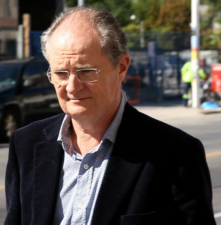 Jim Broadbent at the 2007 Toronto International Film Festival